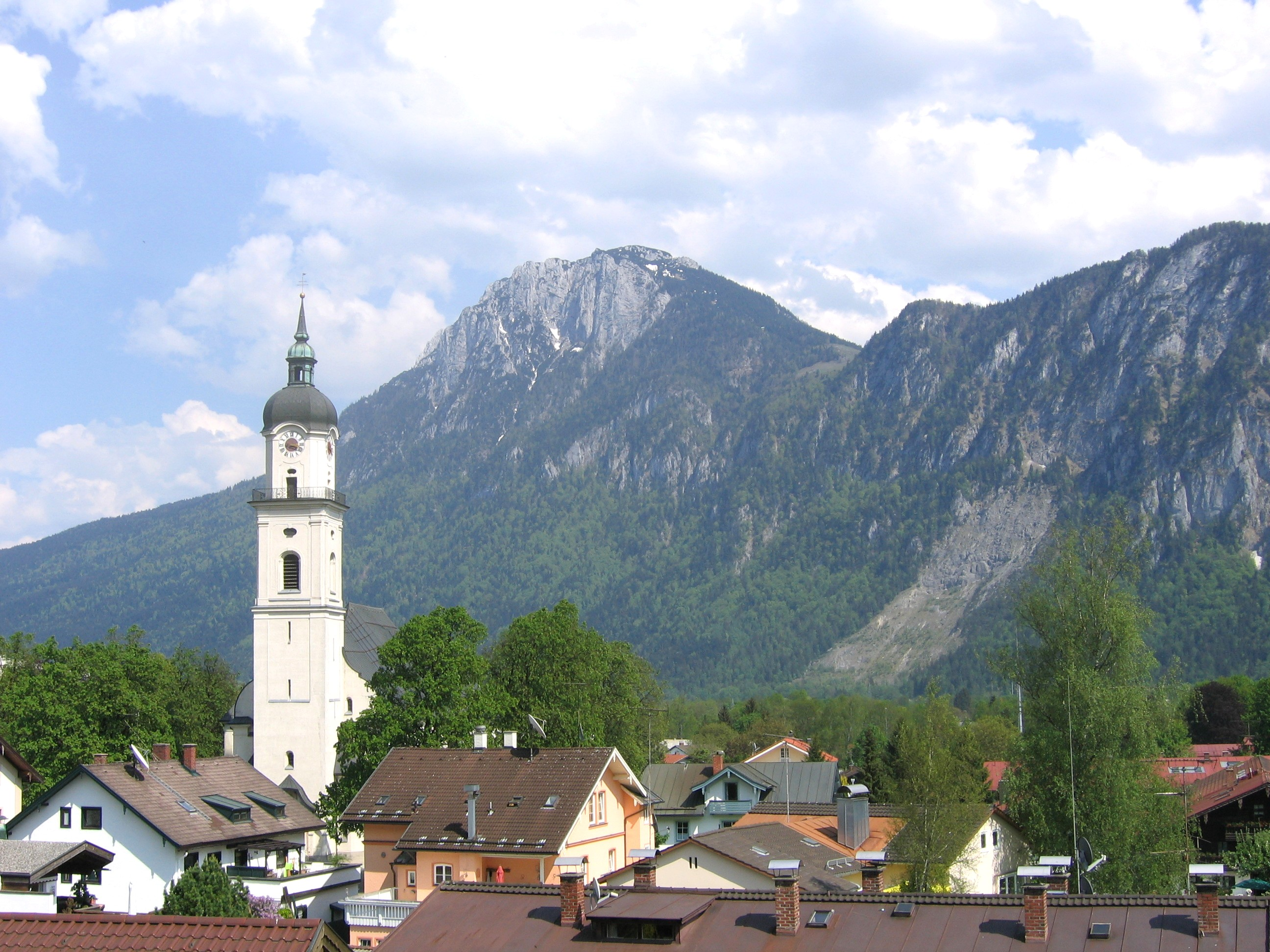 Kiefersfelden, general view of the village with Holy Cross new Parish Church and Zahmer Kaiser mountain (in background).